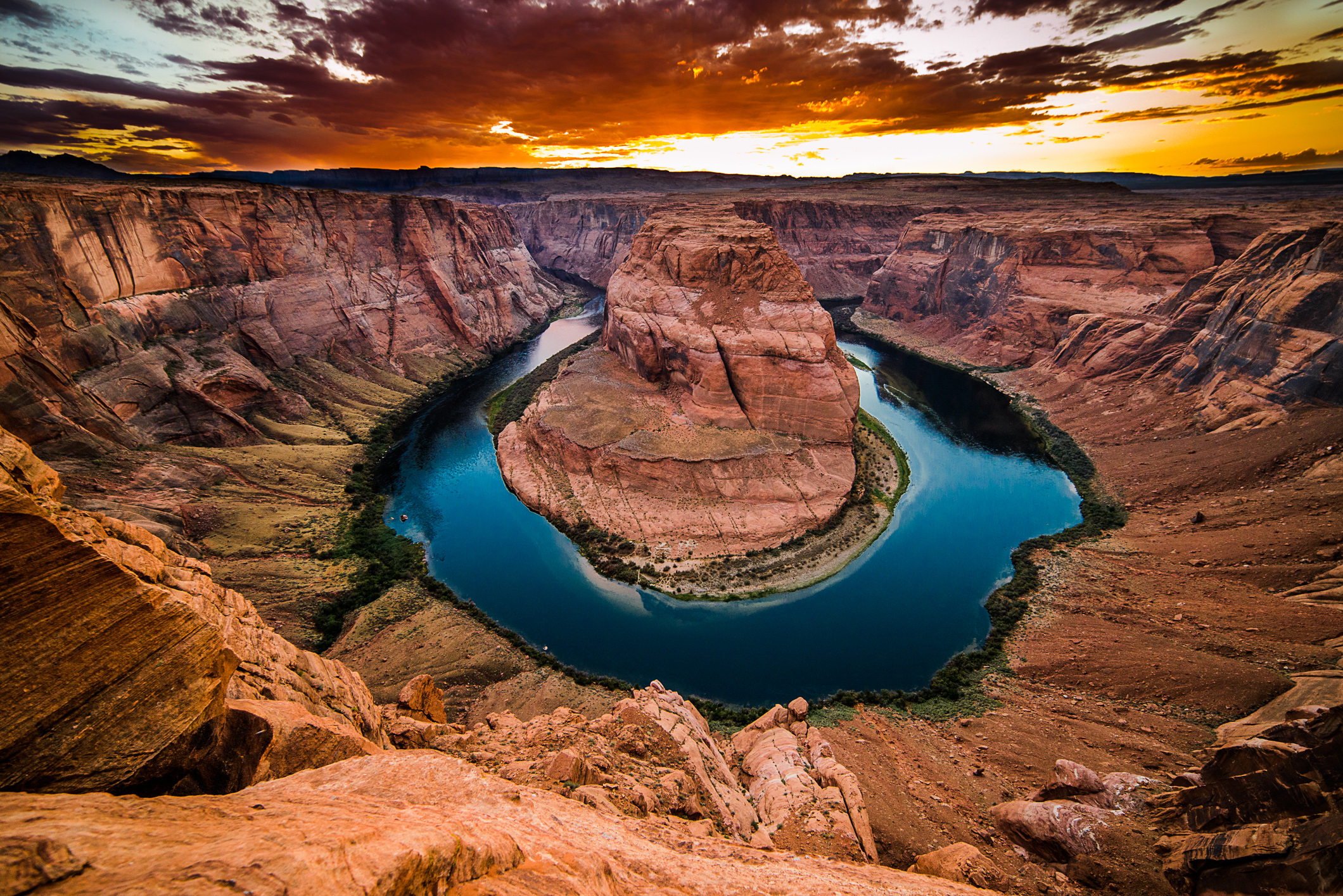 Horseshoe Bend near Page, Arizona, United States